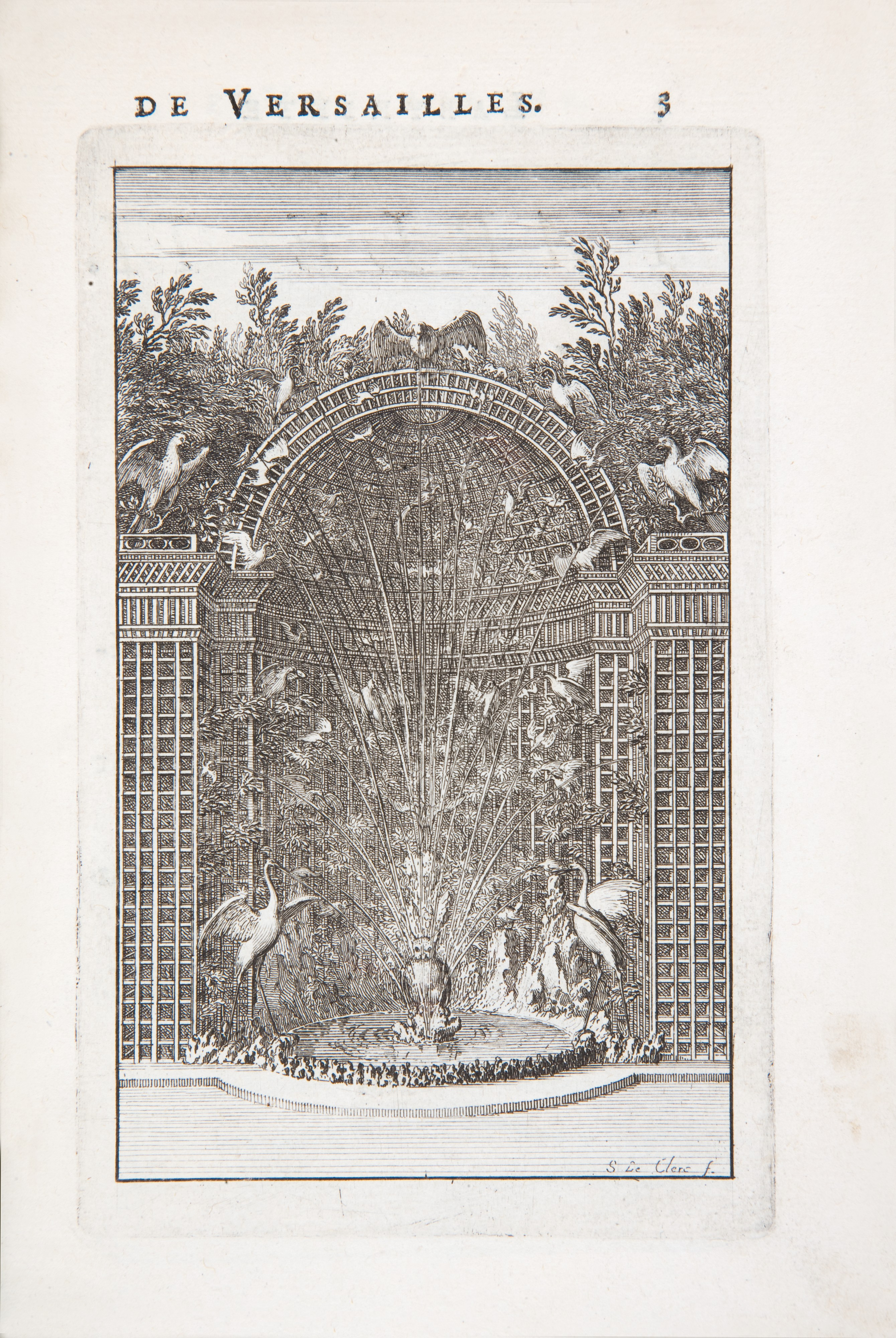 Book Ornament & Architecture; Books